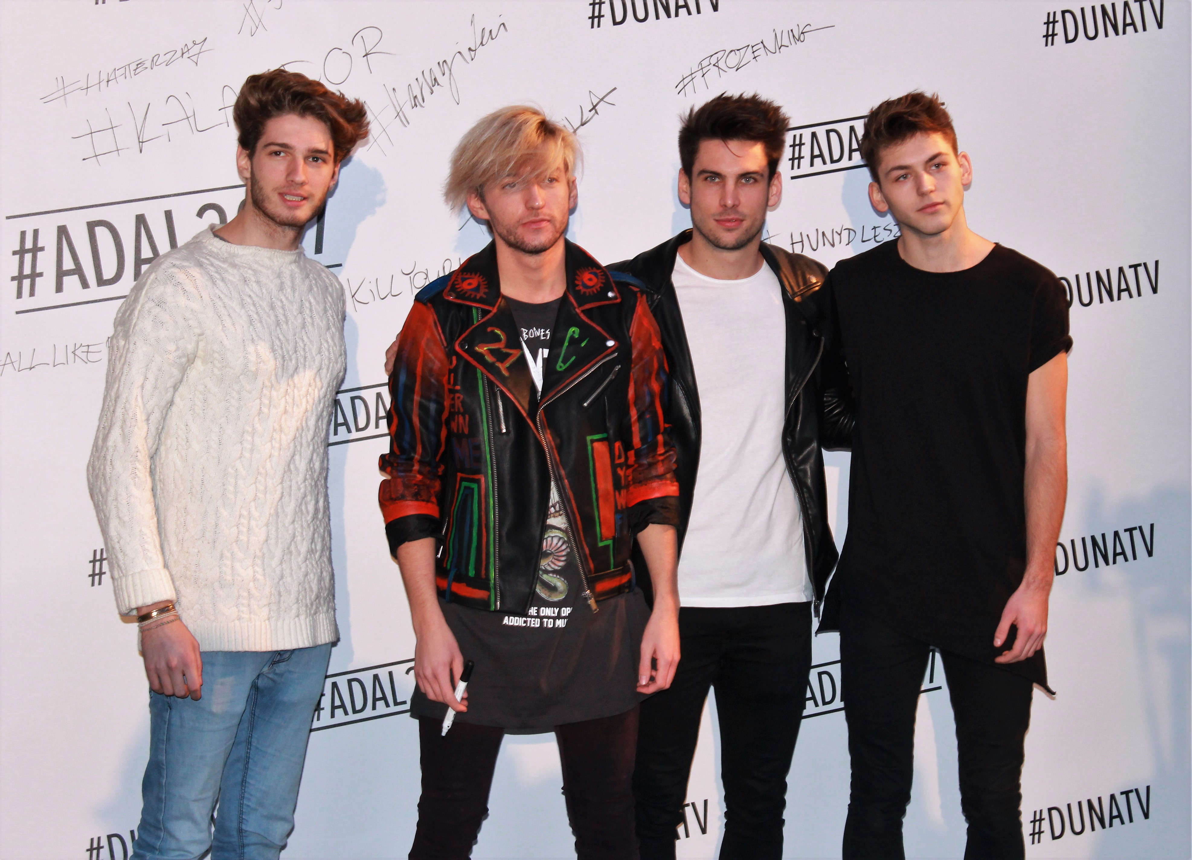 A Dal 2017 participant: Spoon 21